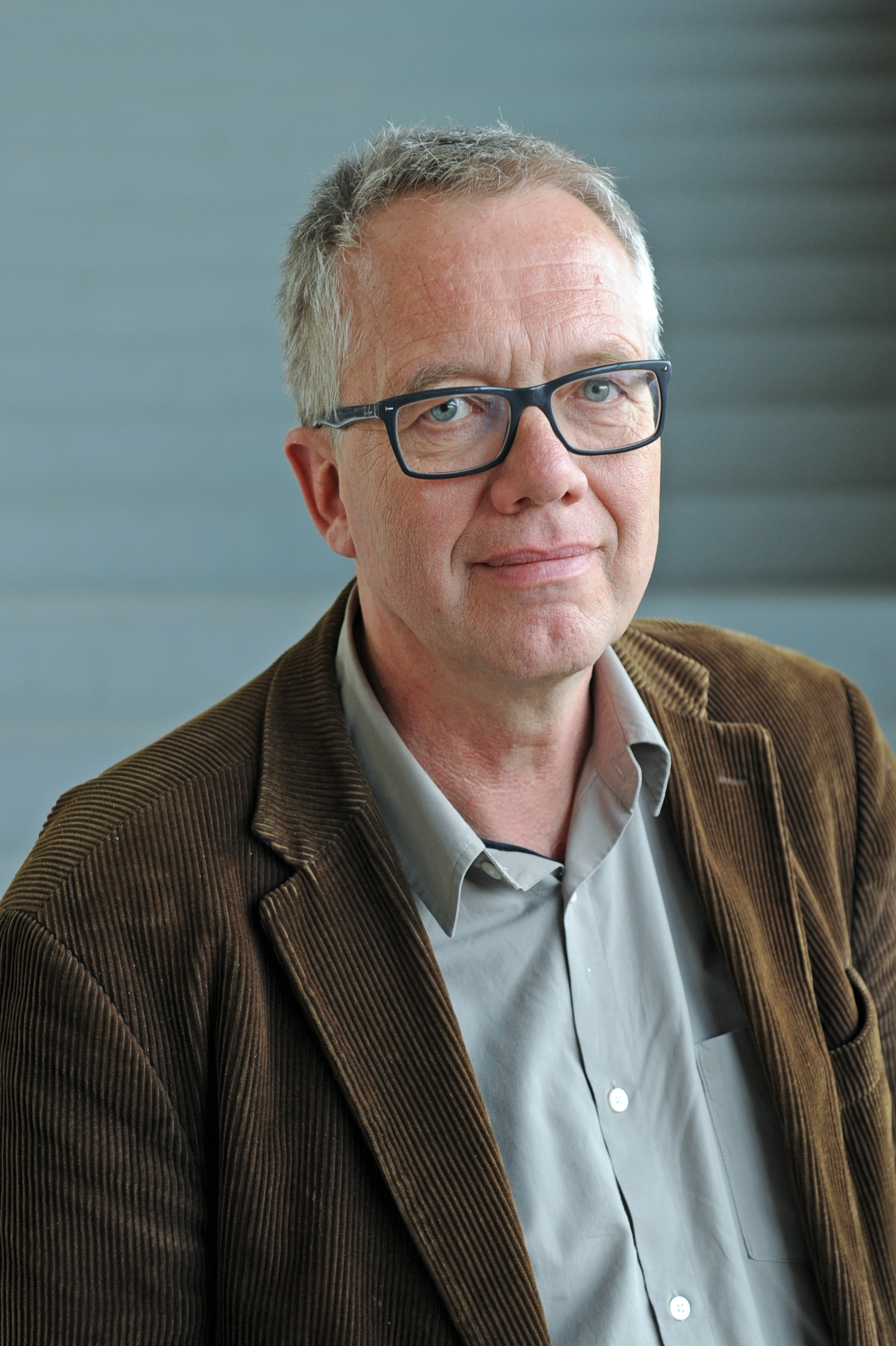 Volker Heise (director, author, producer)